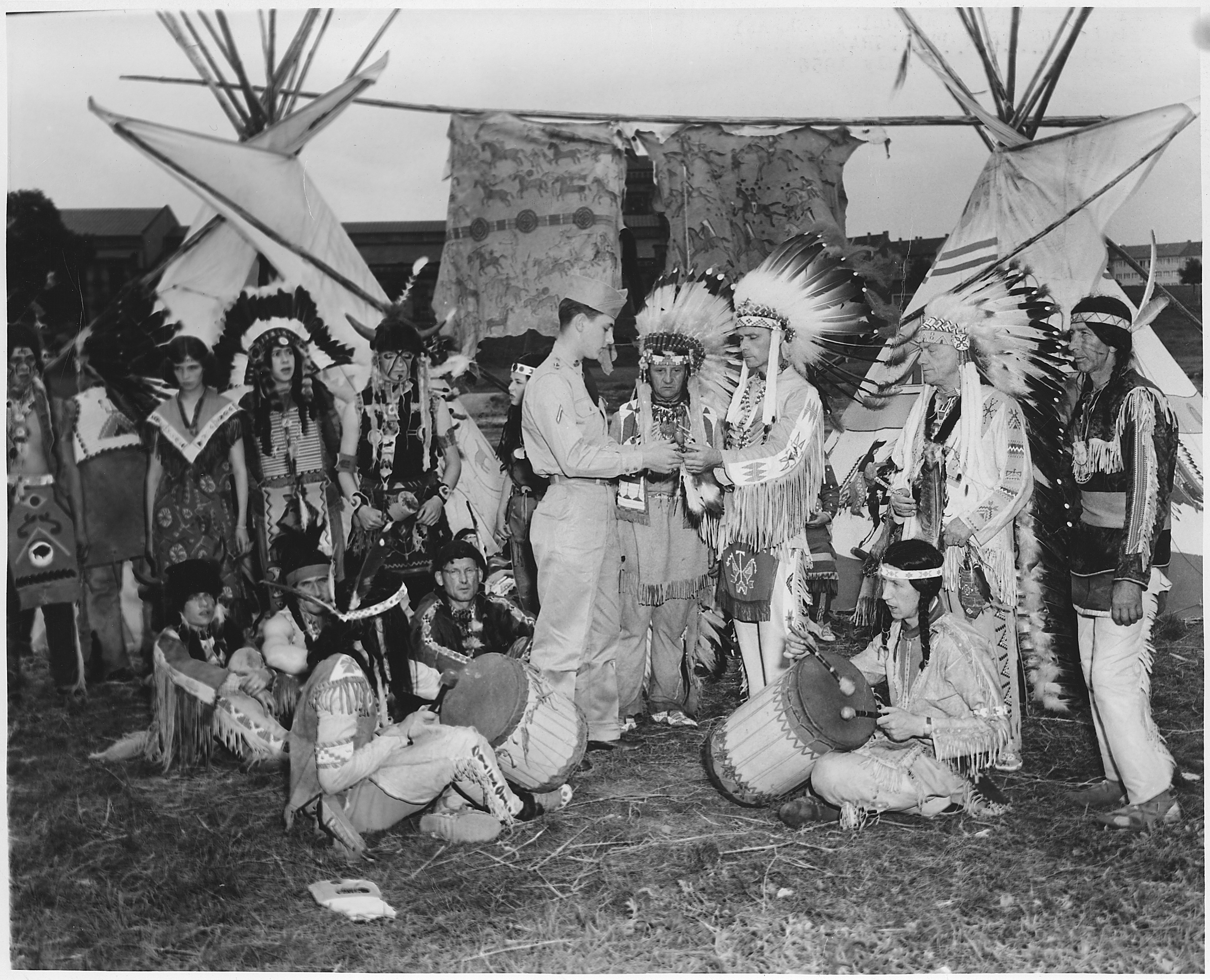 Scope and content: "Chief" Willie Linder of the "Heidelberg Ogalala Tribe" smoking peace pipe. Germans and GIs are dressed up as Indians, with tipis, decorated skins, and drums in the picture as well. An example of the considerable German interest in the history and culture of the American West.